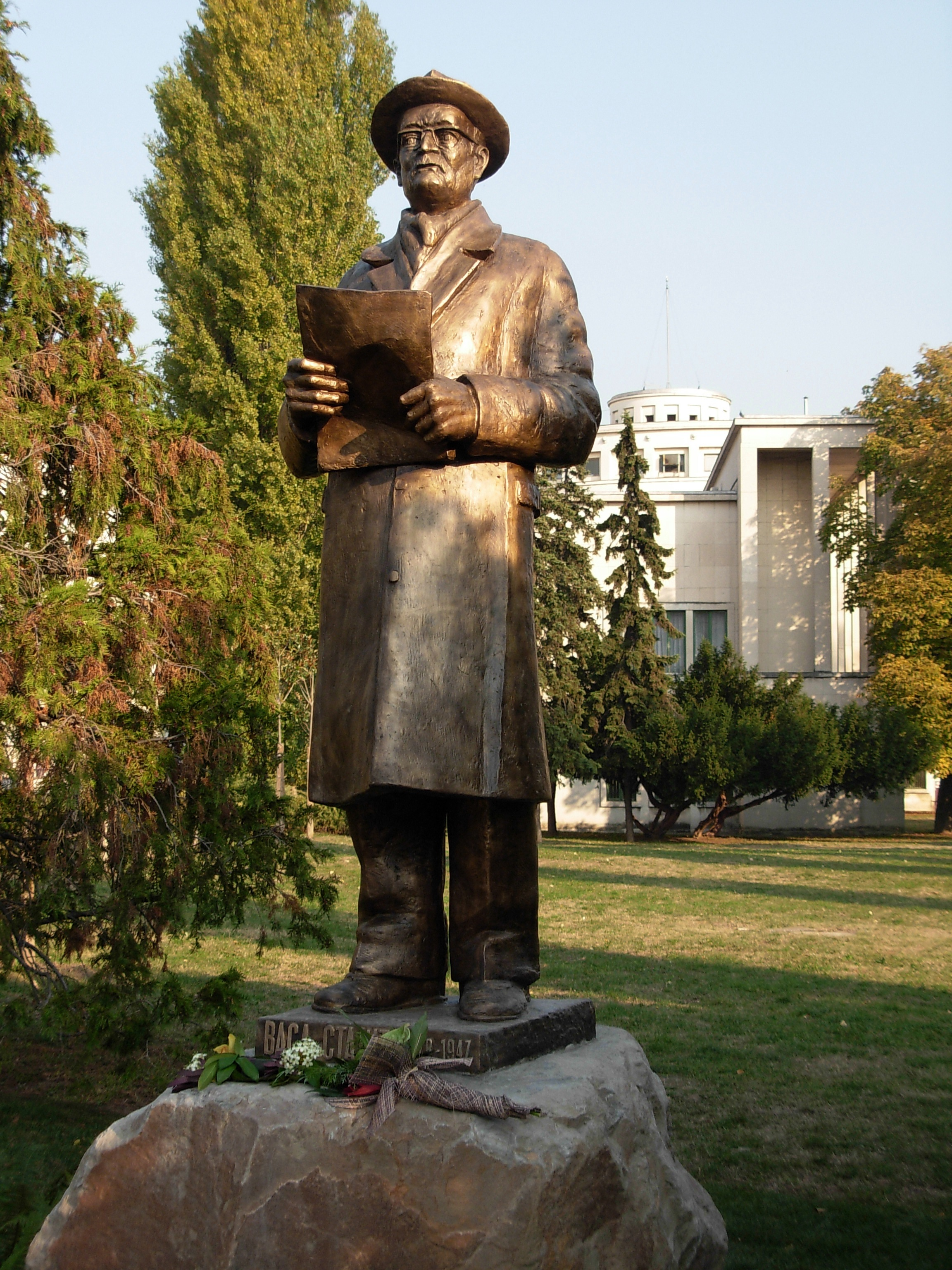 Spomenik Vasi Stajiću pored Izvršnog veća u Novom Sadu.